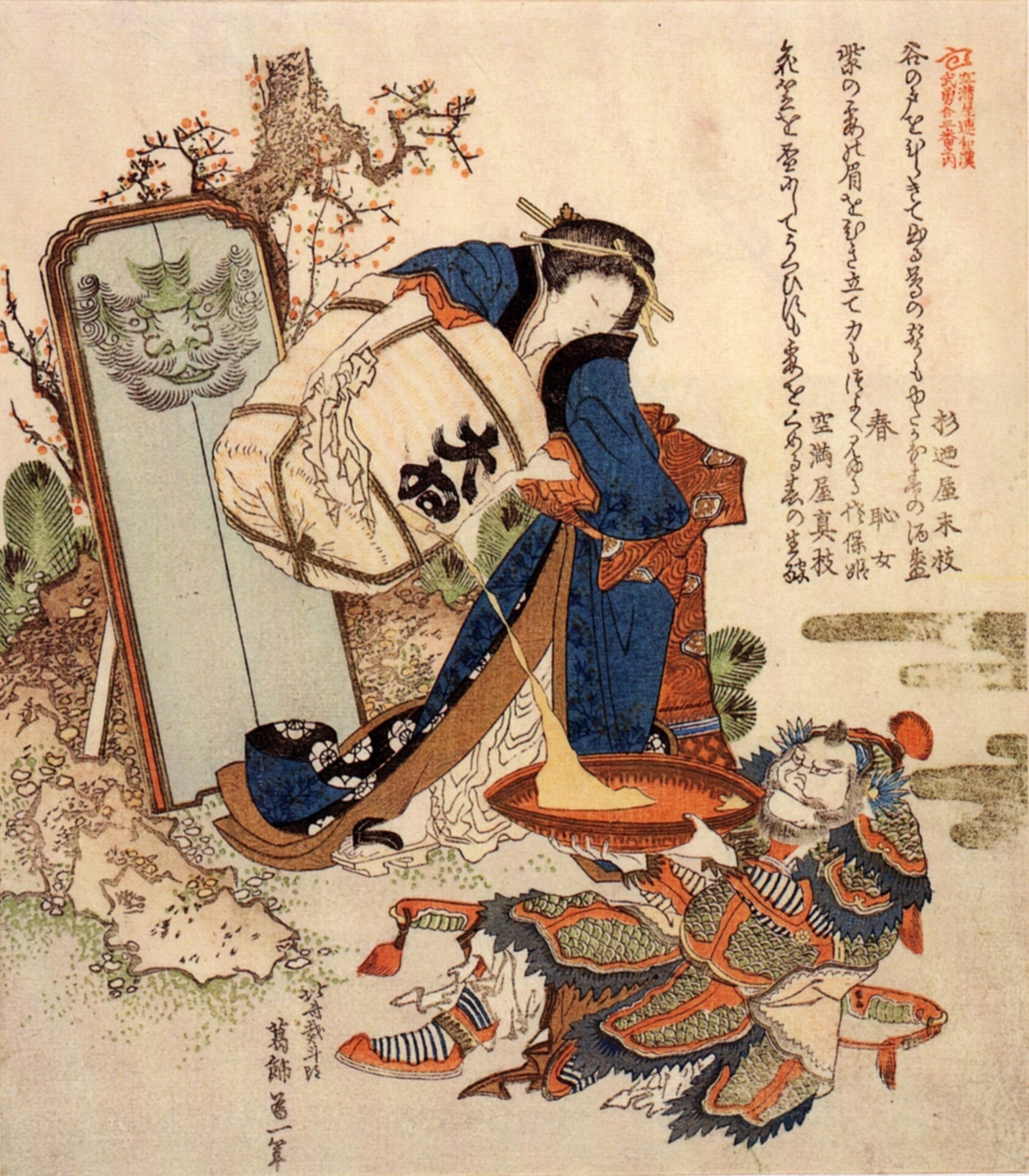 A portrait by Hokusai of his daughter Ōi? and Fan Kuai. Presumably the title is a pun on her art name, which was Sakae. However, it is totally different from the Japanese original title. The Japanese original title means "Combined pictures of the brave people from Japan and China, Ōiko and Fan Kuai". The original title does not have the character of Sake and her given name is not Sakae but Ei. There is no fact that Hokusai called her Sakae. Ōiko(大井子) was the Japanese legendary strong woman from "Kokon Chomonjū". Ōiko was also drawn by other ukiyoe artists such as Utagawa Kuniyoshi and Yoshitoshi Tsukioka. Hokusai drew Ōiko to "Hokusai Manga", too. Ōiko was commonly used for the motif of ukiyoe prints. Ei used her artist name "Ōi (應為 / 応為)" for the first time in 1847 and more than 25 years passed since this painting was published. The speculation would be distorted by the people who don't know the history and the culture about East Asia.